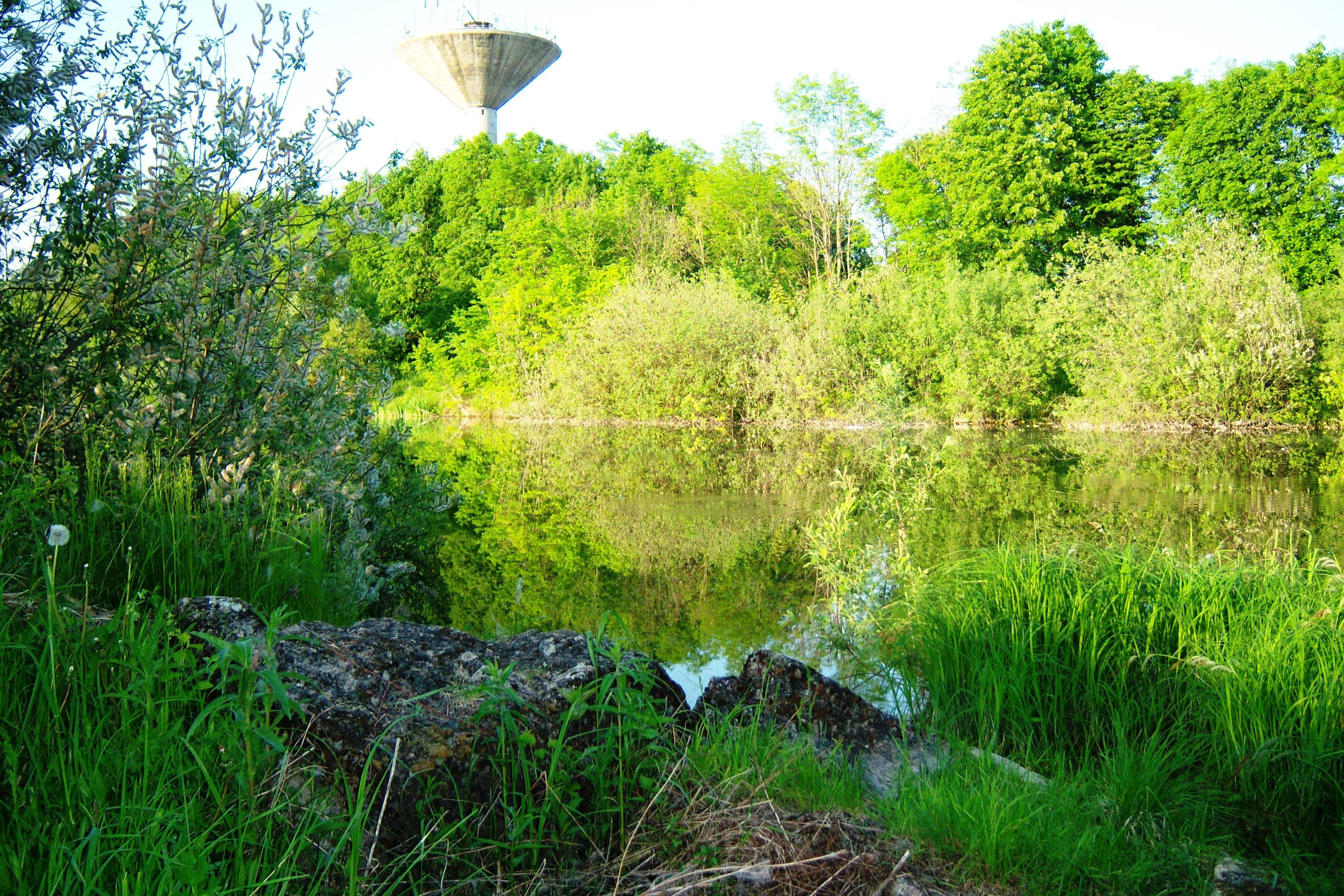 Kaunas Fortress. Marva Fort Ruins on Surrounding Moat